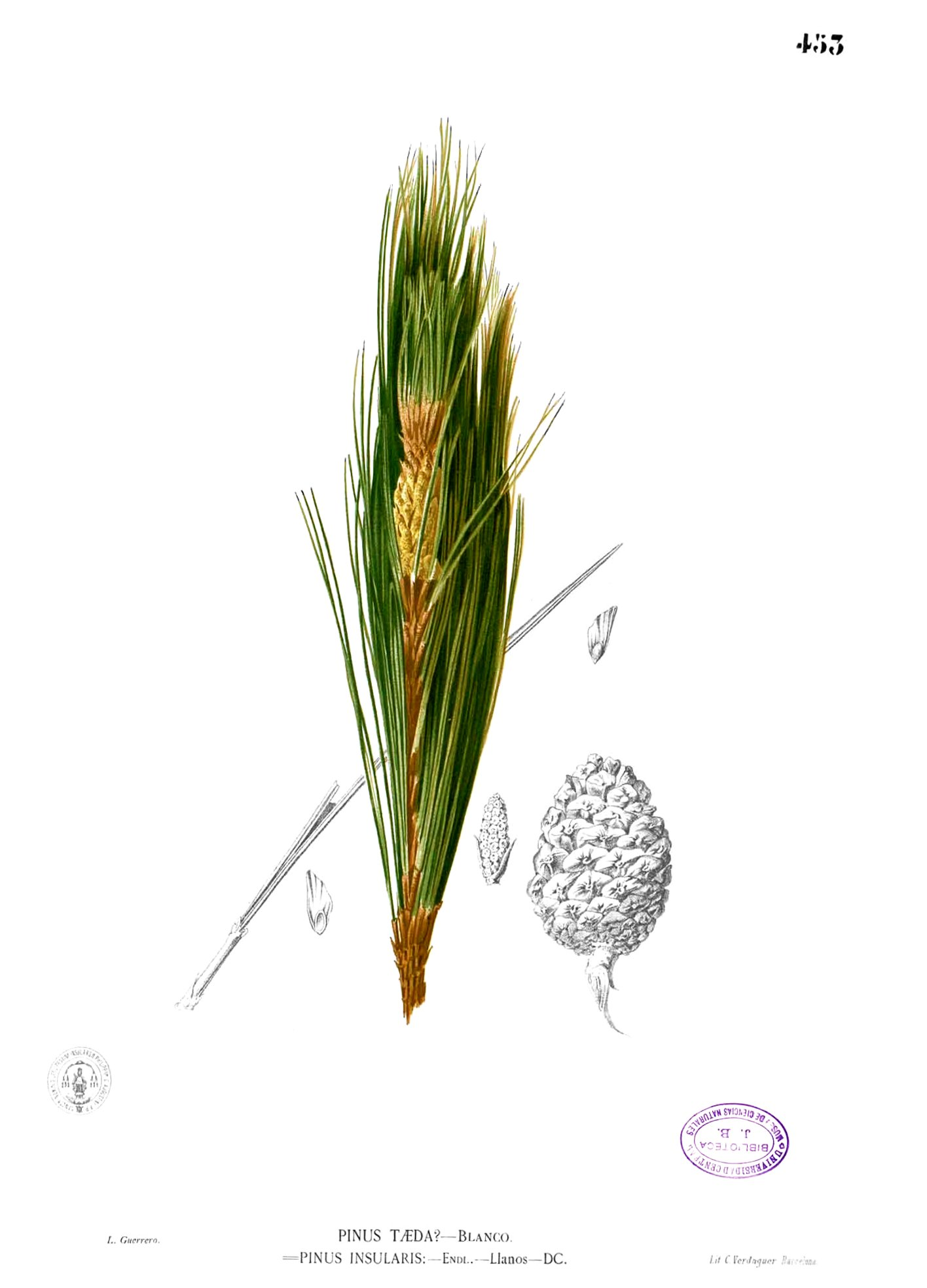 Pinus kesiya plate from book